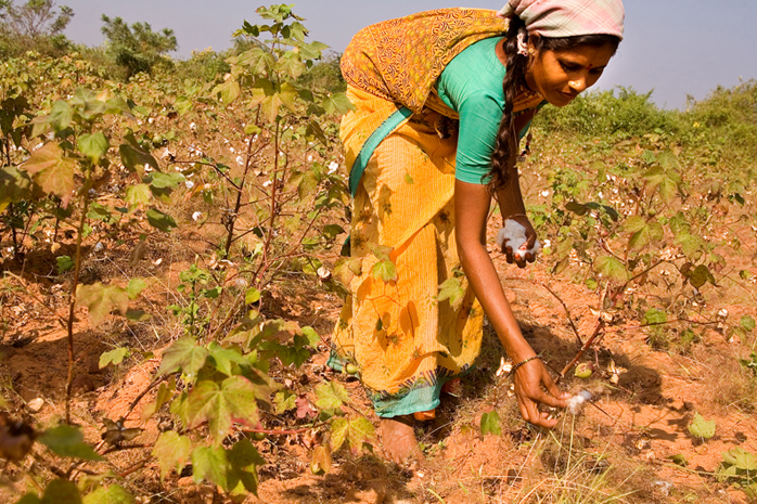 A woman picking cotton in a field near Nagarjuna Sagar — Andhra Pradesh, India.